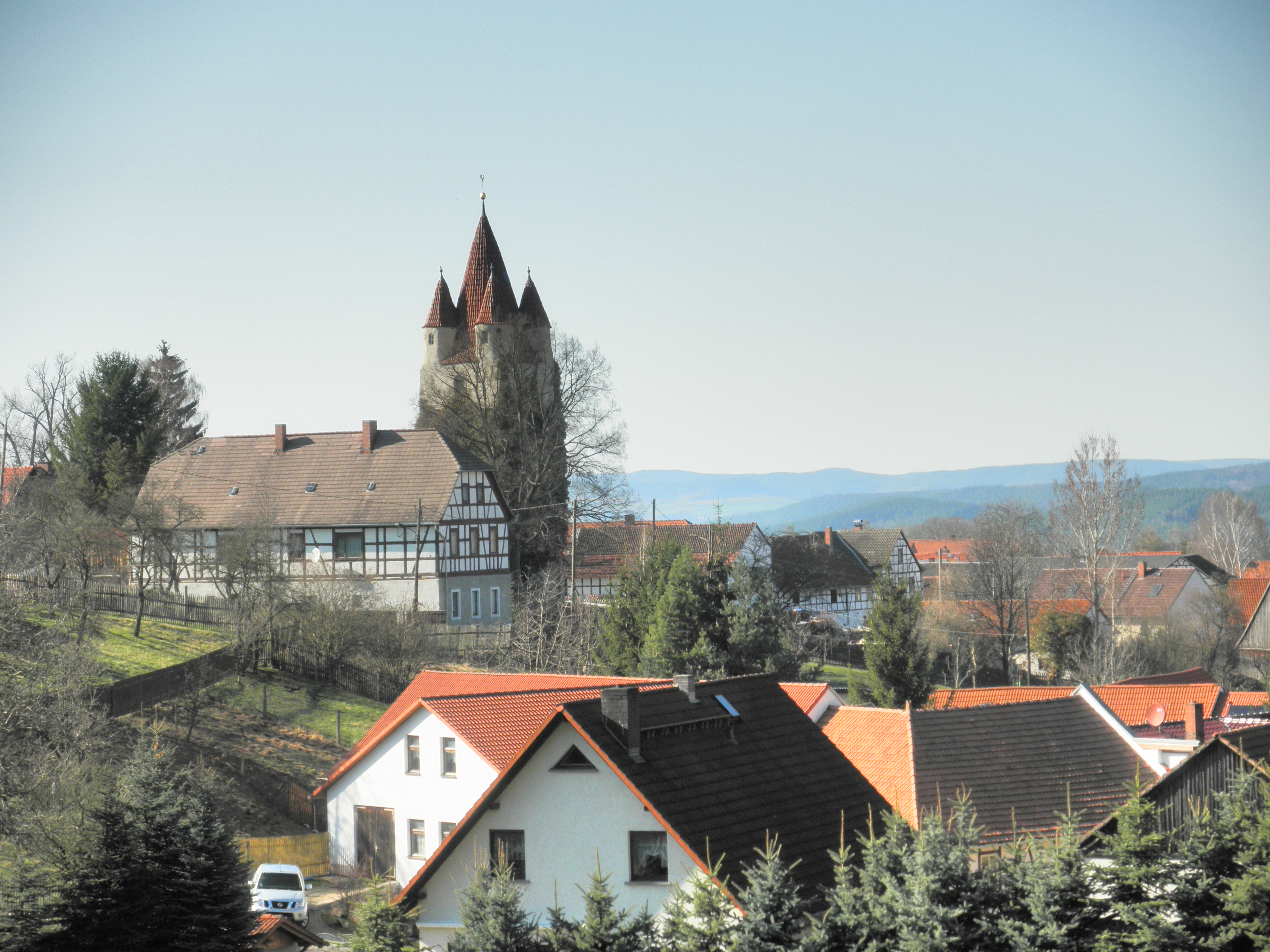 Village of Oberoppurg in Thuringia